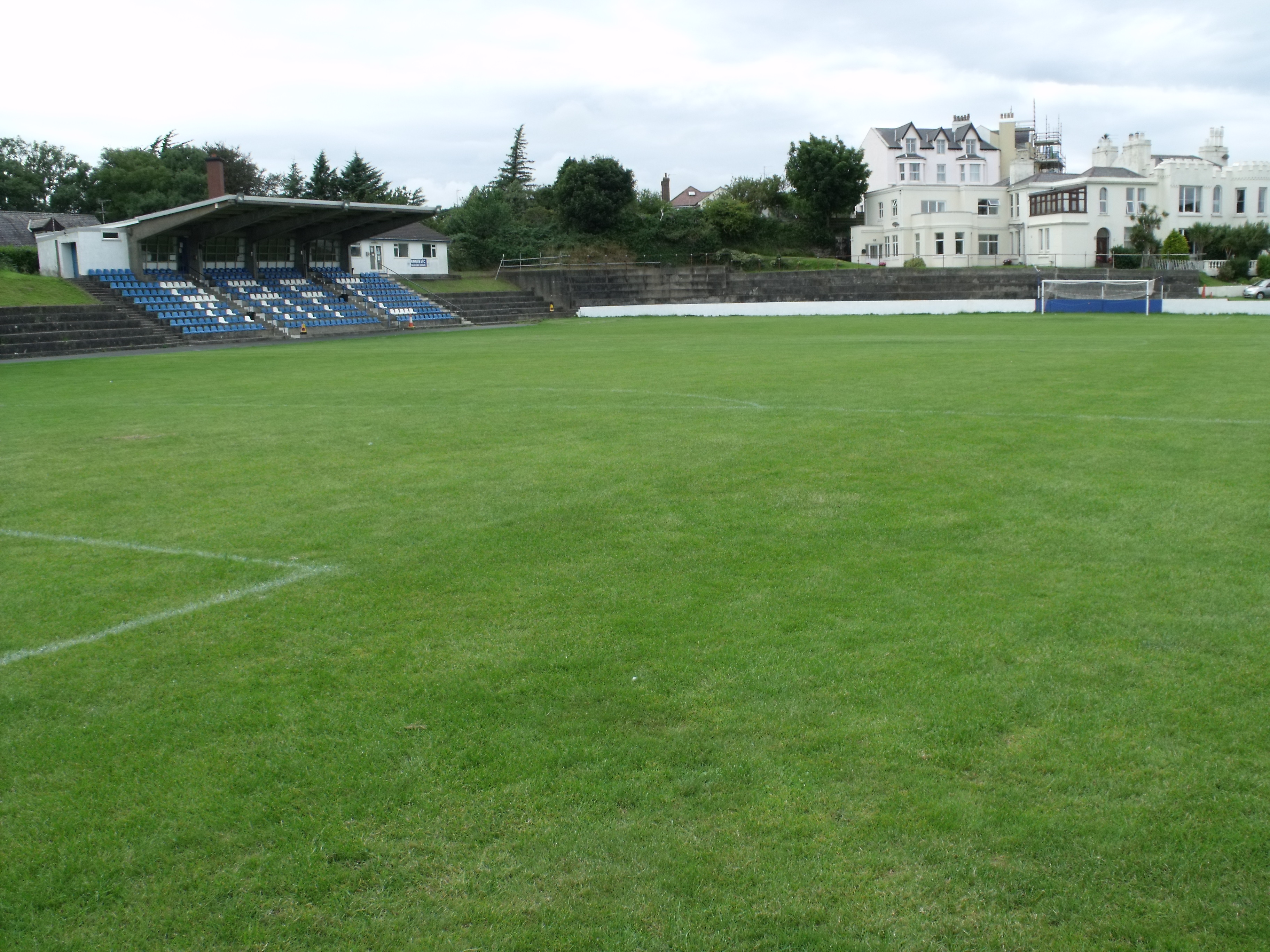 Ramsey Football Ground. Isle of Man.